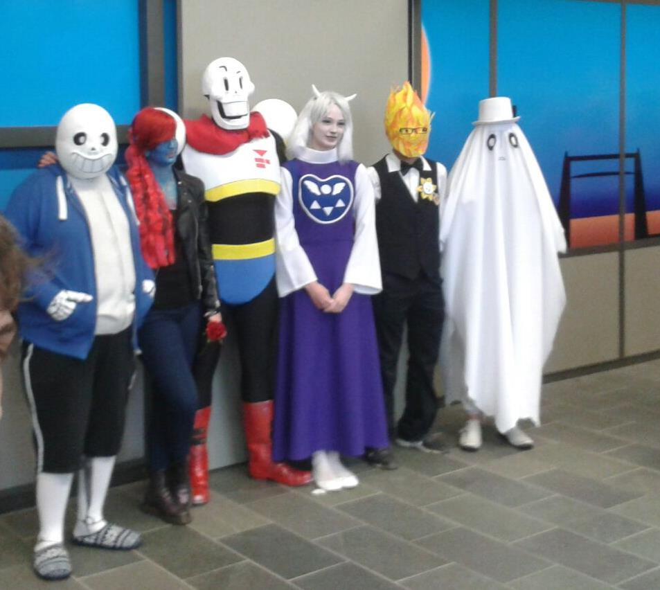 Cosplyers portraying (fltr) Sans, Undyne, Papyrus, Toriel, Grillby, and Napstablook. Picture was taken at Tsunacon in Rotterdam, the Netherlands.